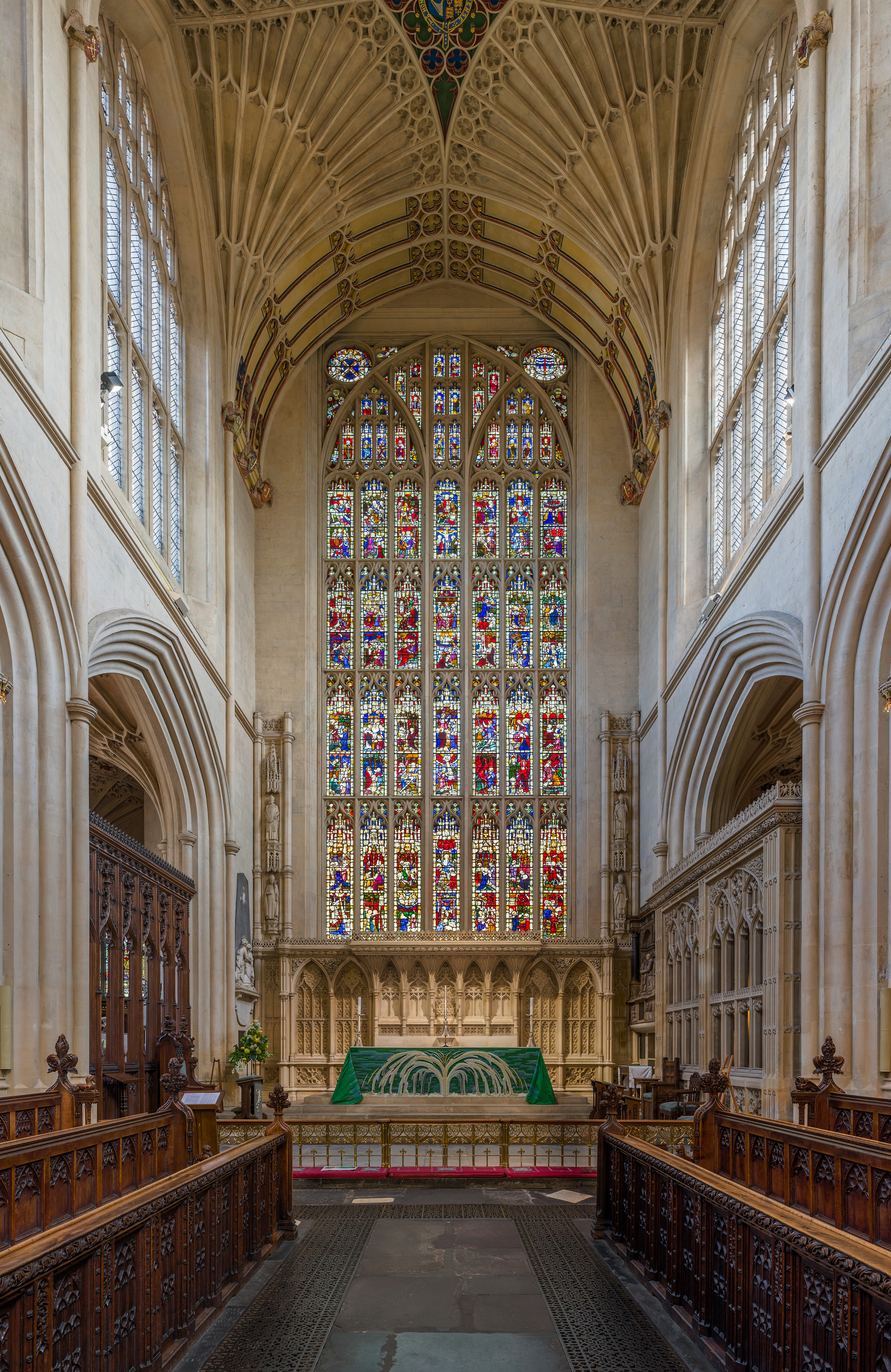 The stained glass and altar at the eastern end of Bath Abbey in Somerset, England.